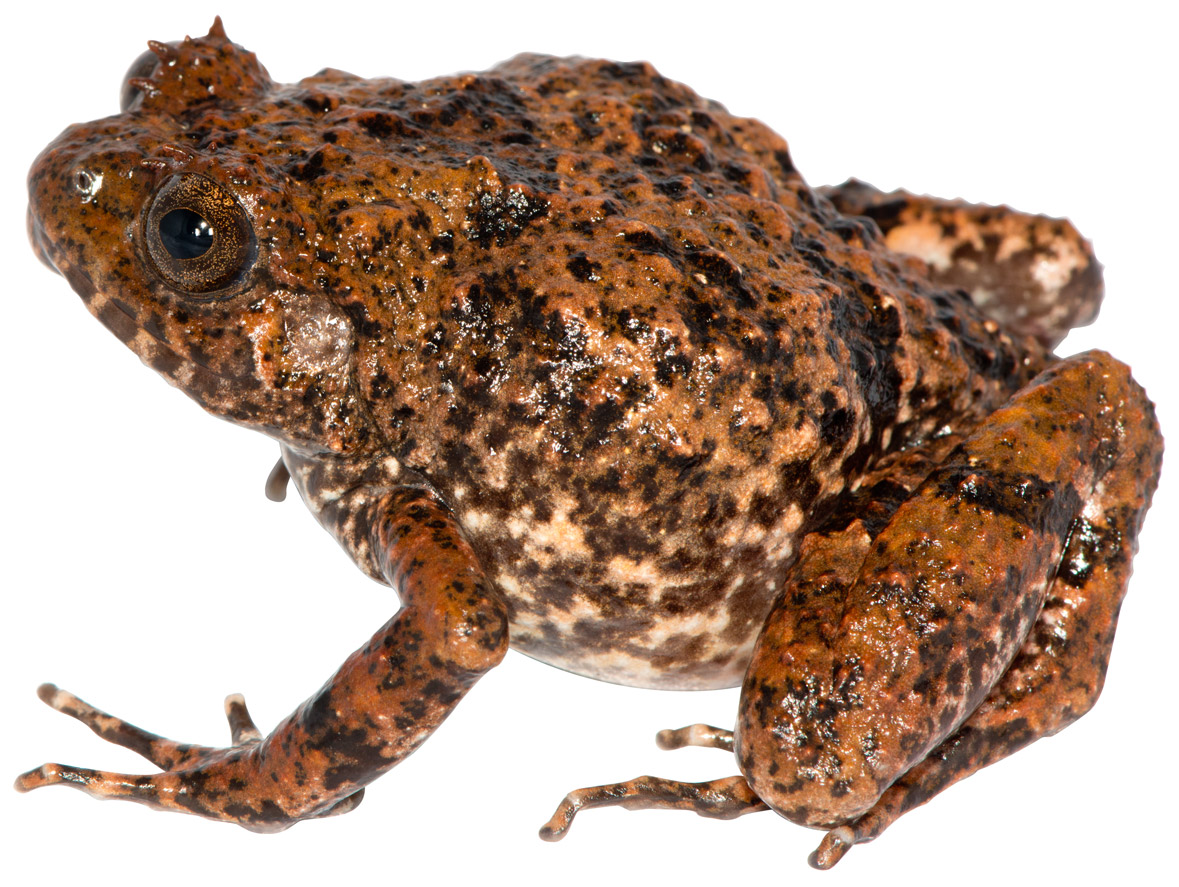 A presumed female specimen of Rhombophryne vaventy, photographed at Camp Simpona (Camp 3) of Marojejy in Madagascar by Mark D. Scherz.